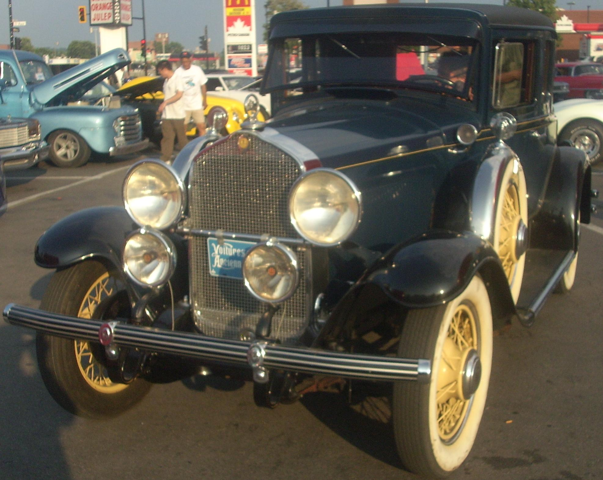 1930 Willys-Knight photographed in Montreal, Quebec, Canada at Gibeau Orange Julep.